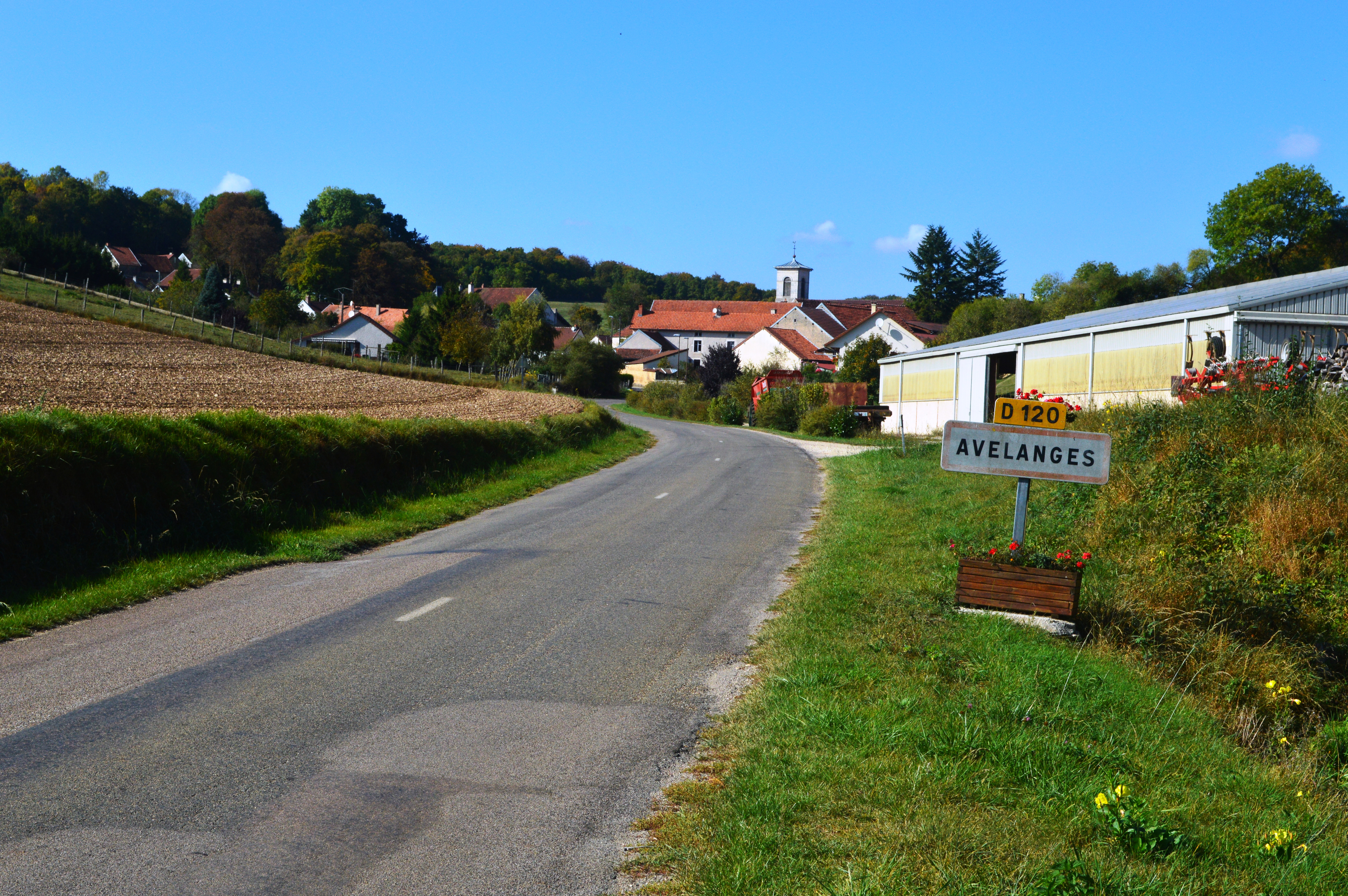 The entry to Avelanges